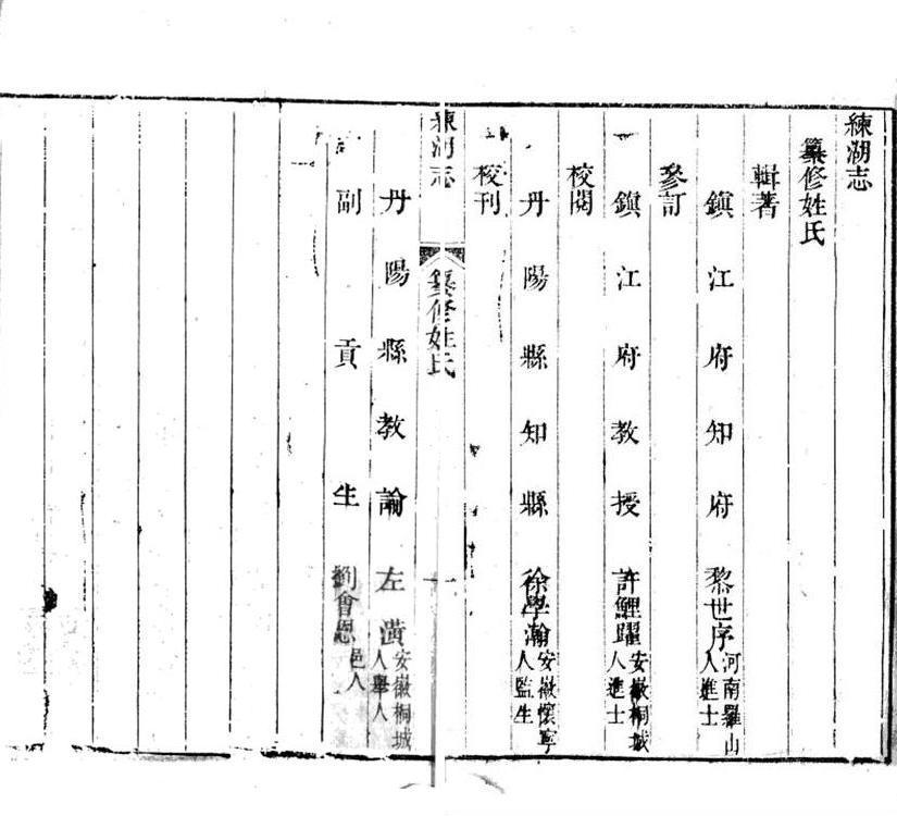 練湖志. Originally uploaded by Aaa8841.